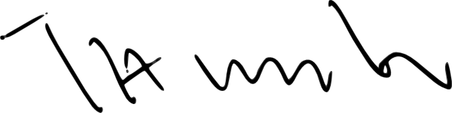 Signature of Tomislav Nikolić